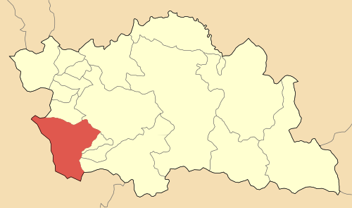 Locator map of Perivoliou community (Κοινότητα Περιβολίου) at Grevena perfecture, Greece.